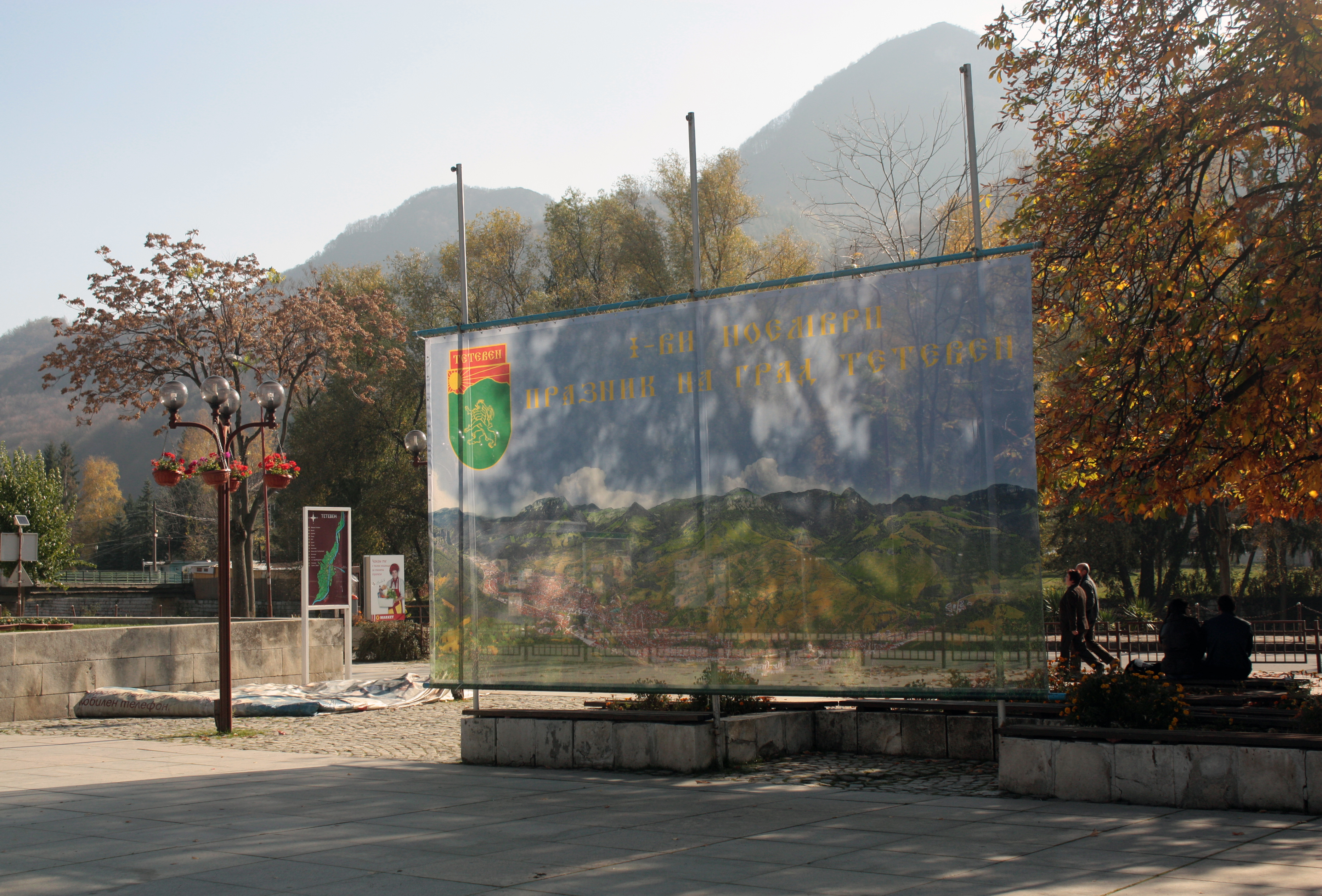 A transparency banner on November 1st - the Day of Teteven